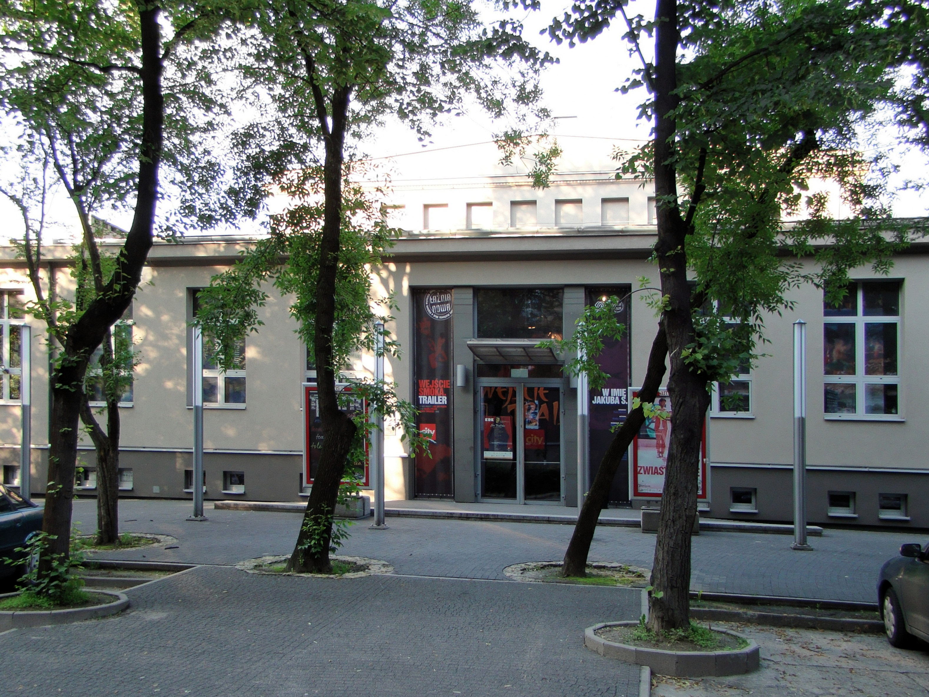 Łaźnia Nowa Theatre in Kraków, Nowa Huta, osiedle Szkolne